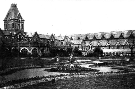 Aston Lower Grounds, Aston Hall, Aston, Birmingham, England